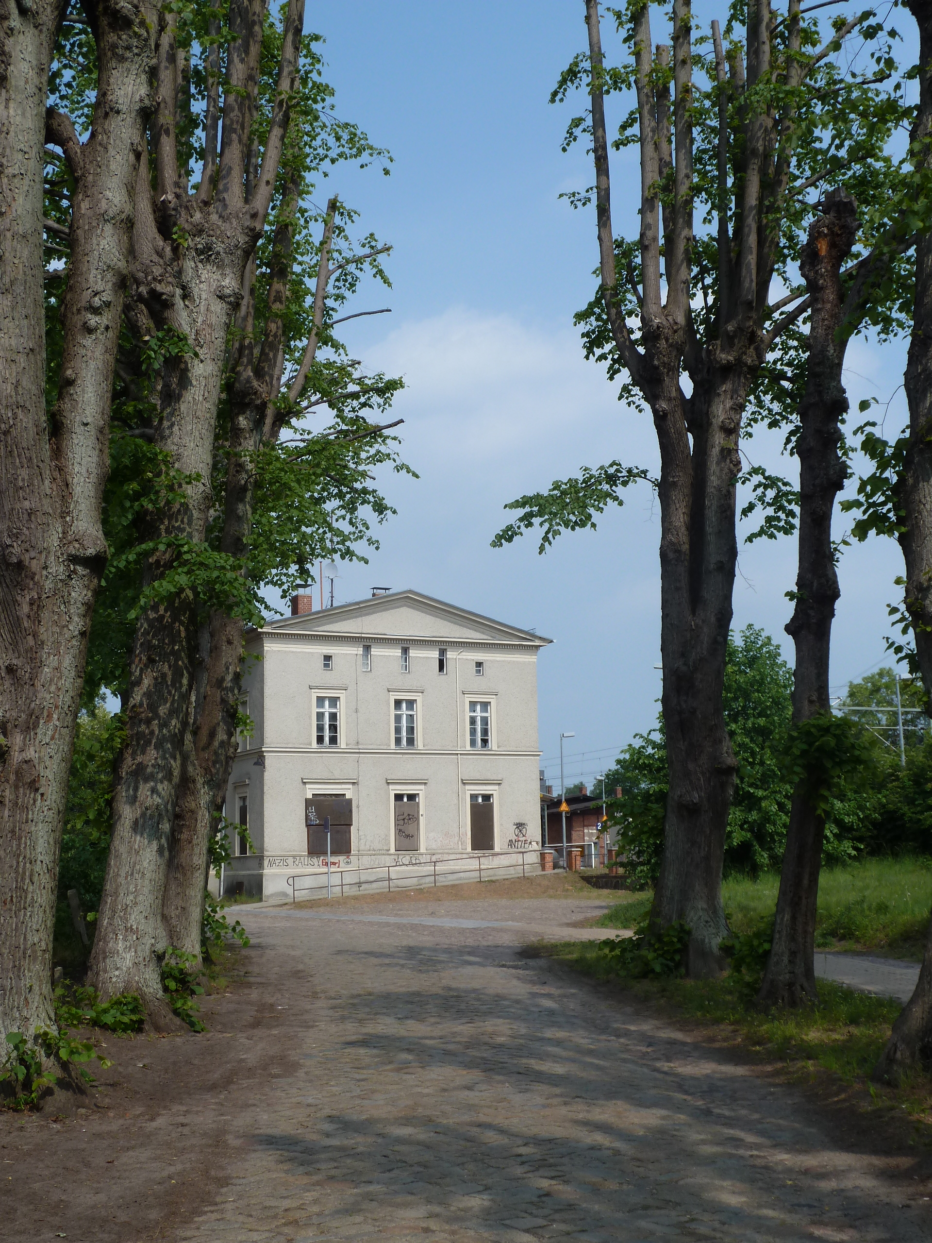 Grabow station building, close to Ludwigslust, line Berlin-Hamburg